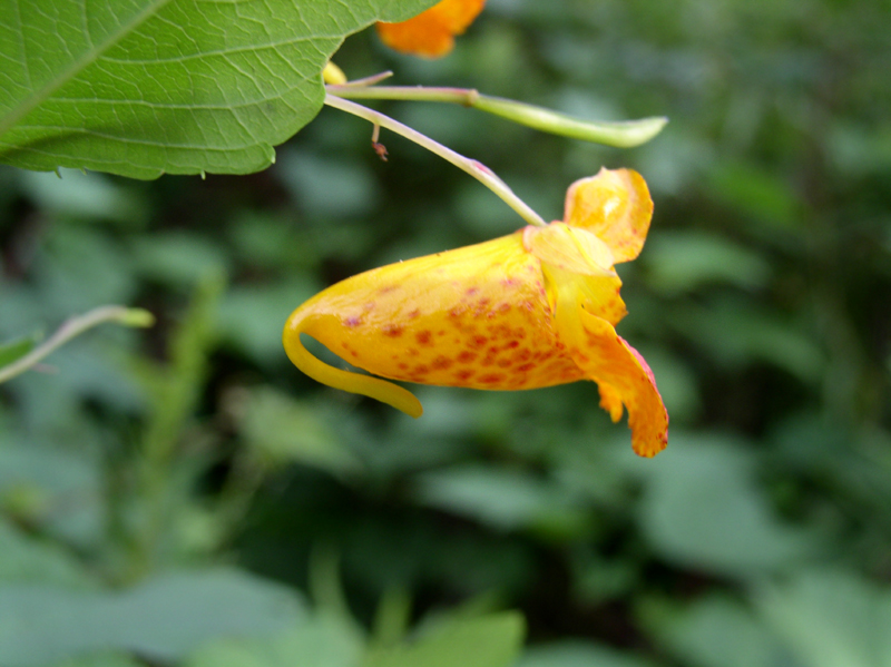 Flower of Jewelweed, showing spur